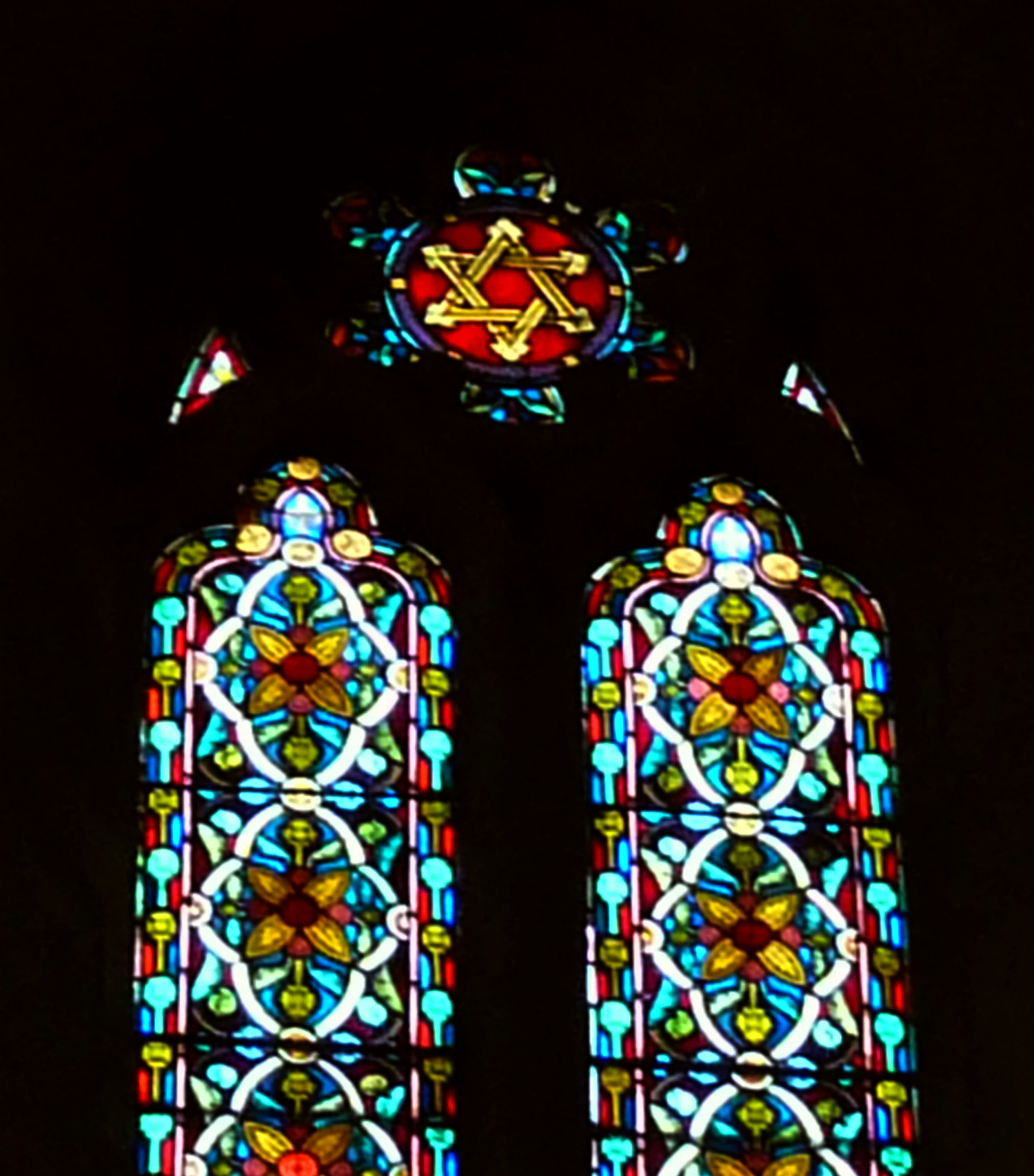 Stained glass in Church of St Thomas the Apostle, Killinghall, North Yorkshire, England. Church completed in 1880, by architect William Swinden Barber. Rose window above right-hand pair of lights in west window. Description as follows: The west window, consisting of two sets of two lights. The rose light in the right-hand window has the Star of David, and the rose in the left-hand window has the IHS symbol, derived originally from the first three letters of Jesus' name in ancient Greek, but usually translated as "Christ the Redeemer". The stained glass was made by Cox and Son, and paid for by the rector of Ripley, Reverend T.C. Thompson.